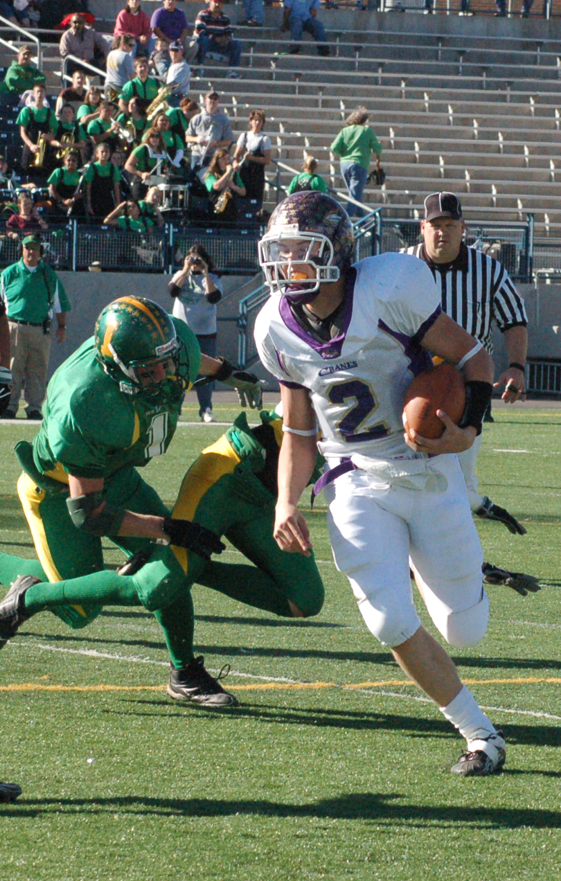 Seth Doege, quarterback for Crane High School, runs for a touchdown during a playoff win over Idalou during the 2005 season.